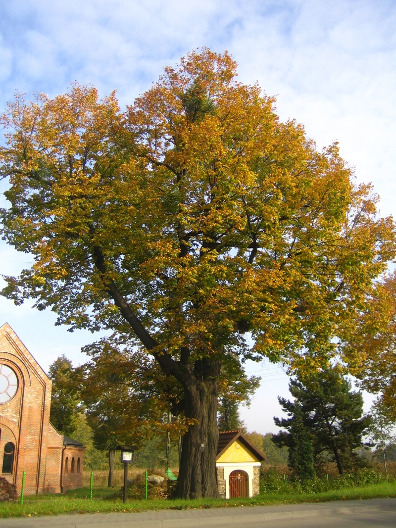 Small-leaved Lime (Tilia cordata) in Stanowice, Silesia, PL